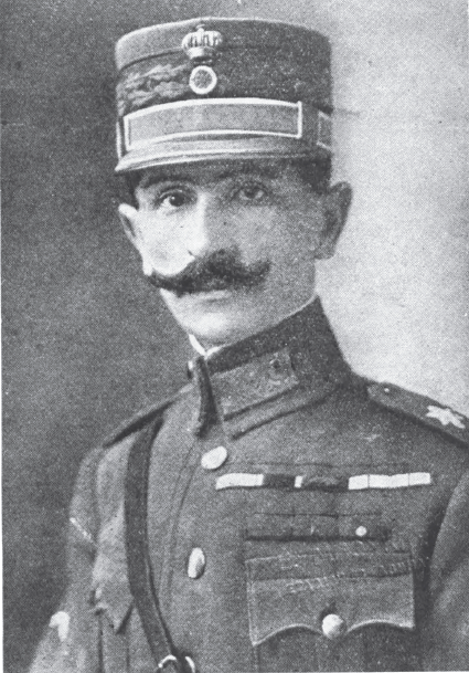 Greek general Alexandros Othonaios, Prime Minister of Greece during an emergency government in March 1933